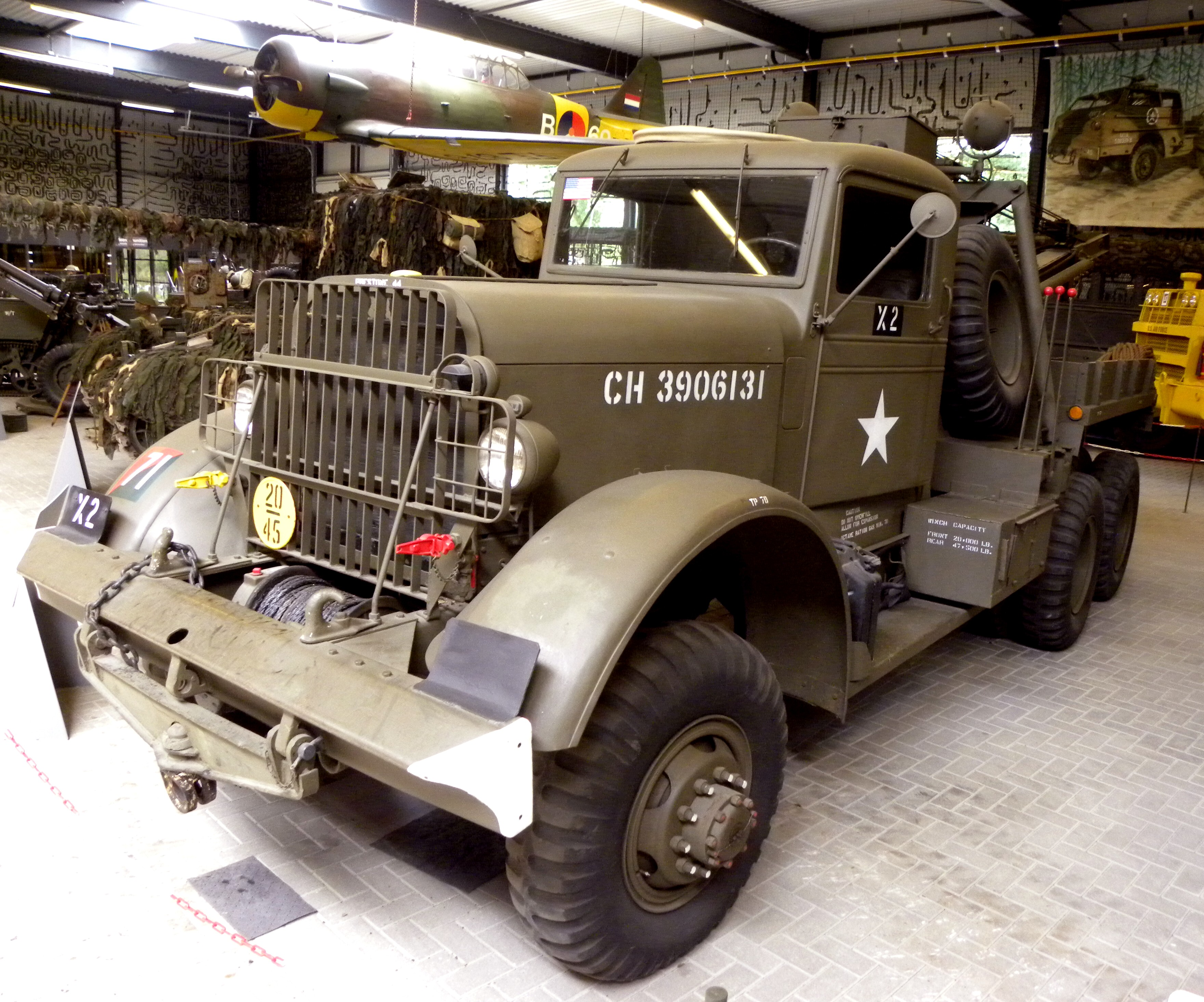 Kenworth 572 from Wo-II